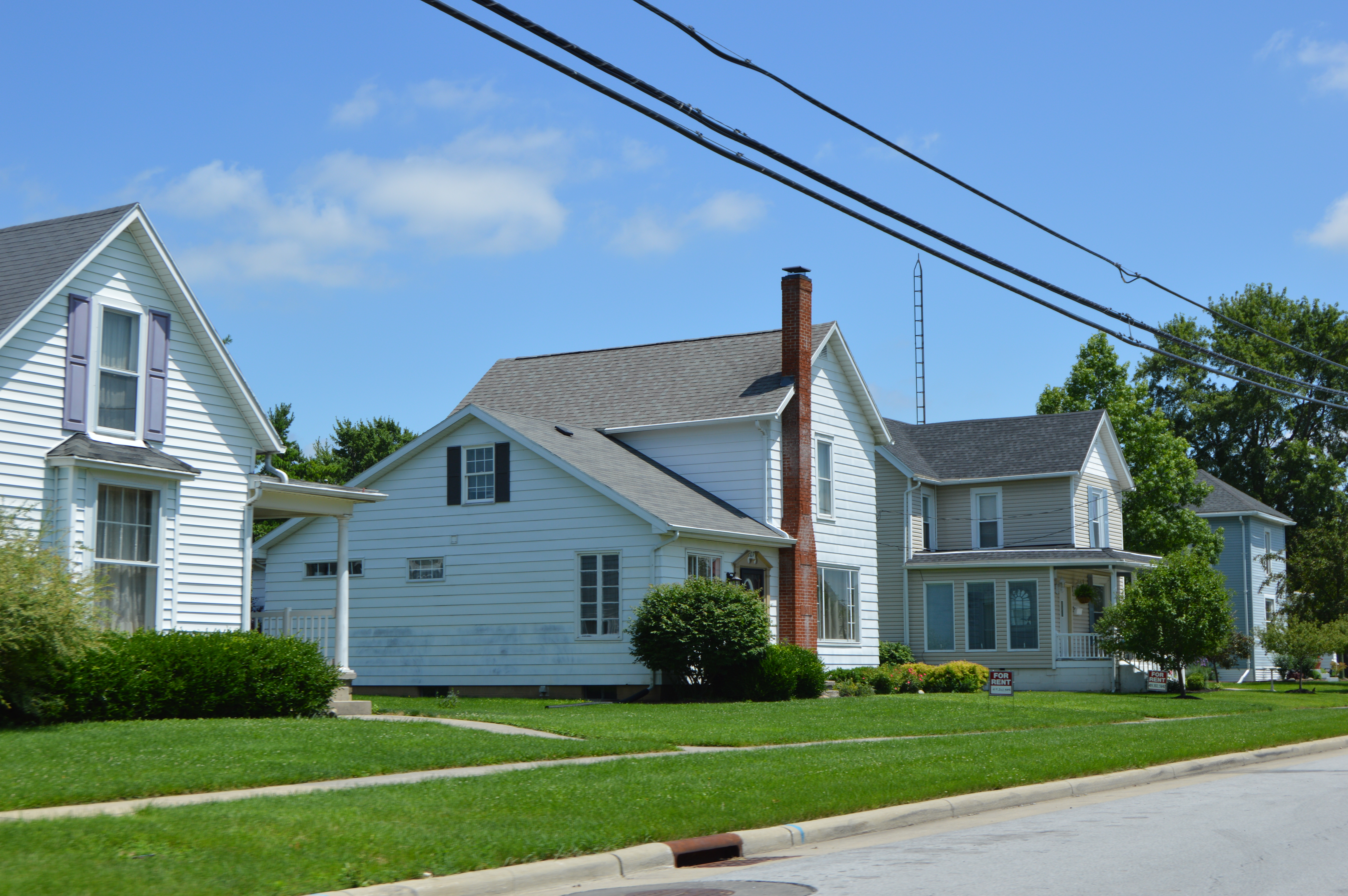 Houses on the northeastern side of Main Street, northwest of the Baxter Street intersection, in Elida, Ohio, United States.